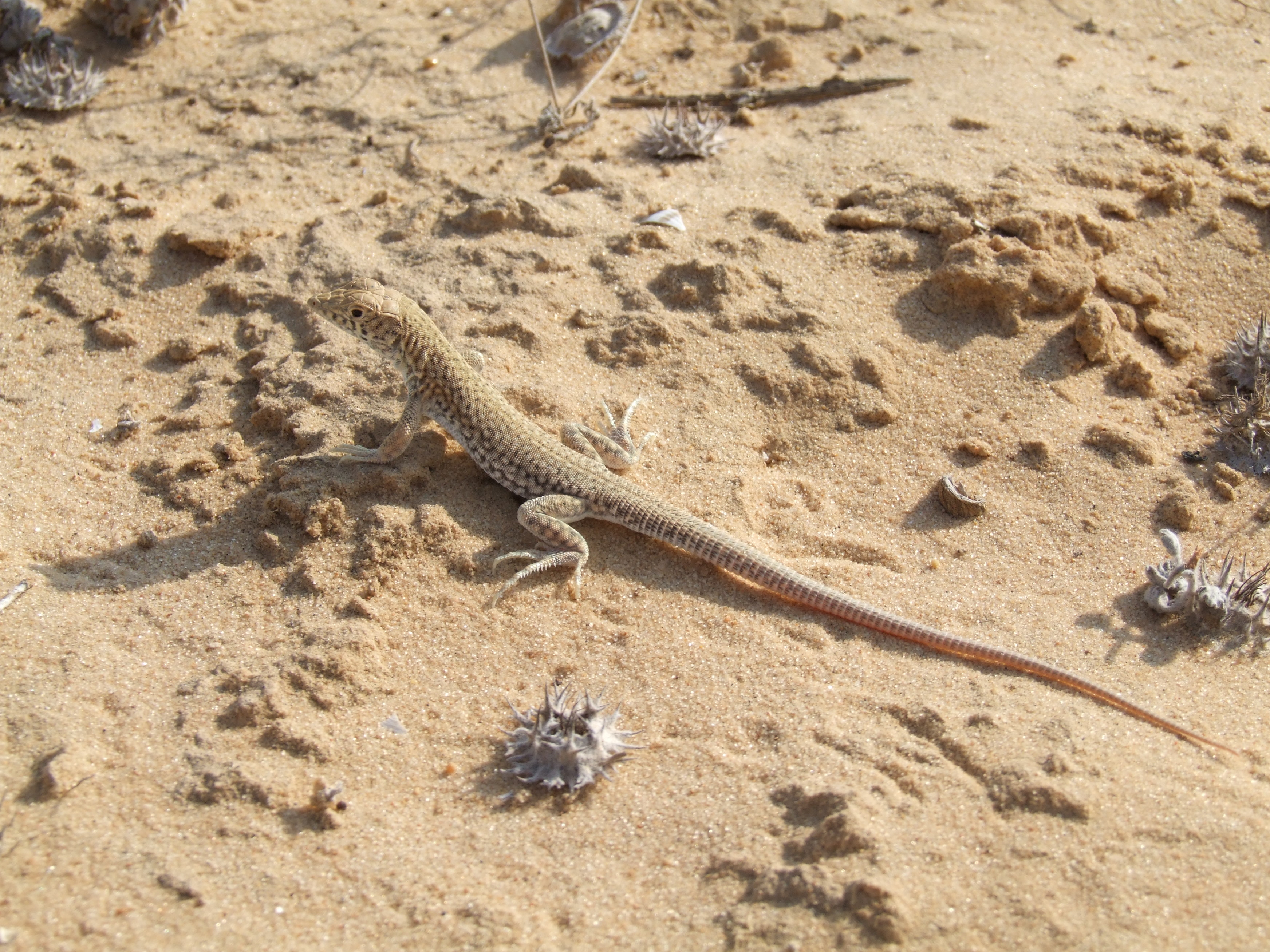 Acanthodactylus scutellatus, adult female, Agur sands, western Negev Desert, Israel, 16 August 2010